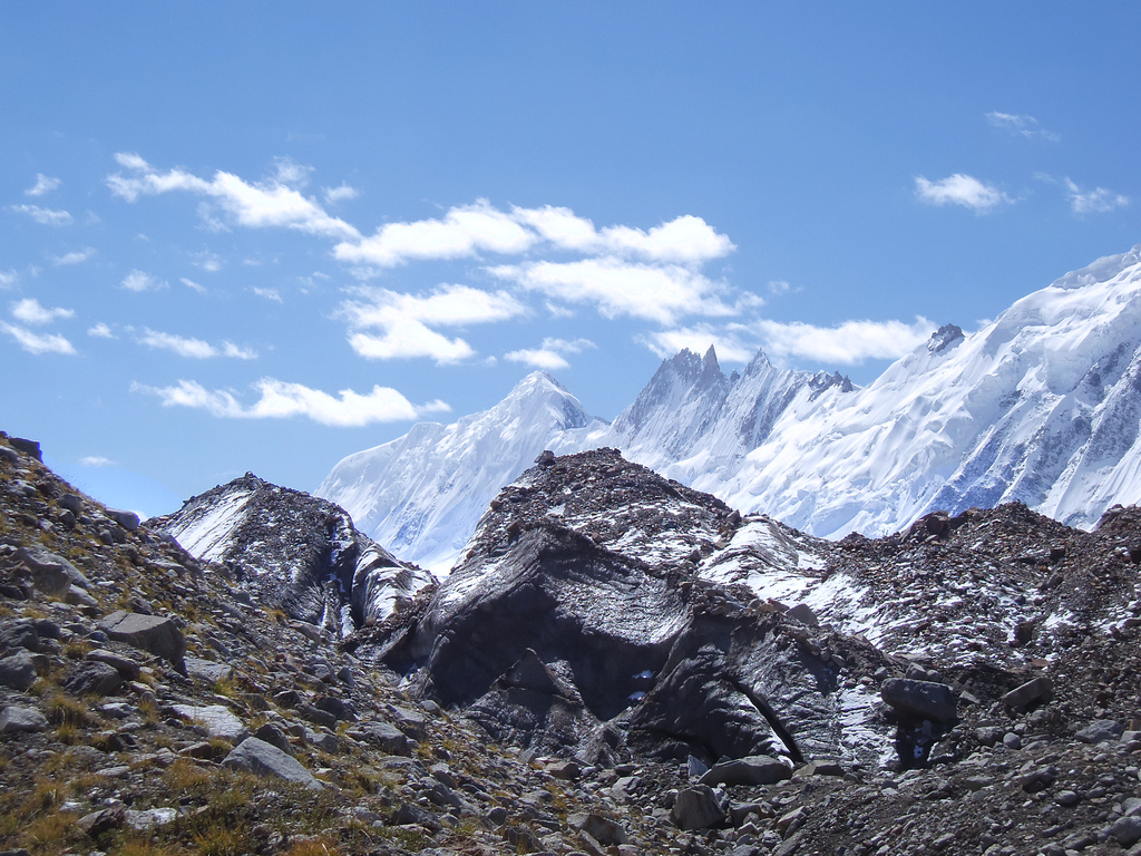 Biafo Glacier in Gilgit Baltistan, Pakistan